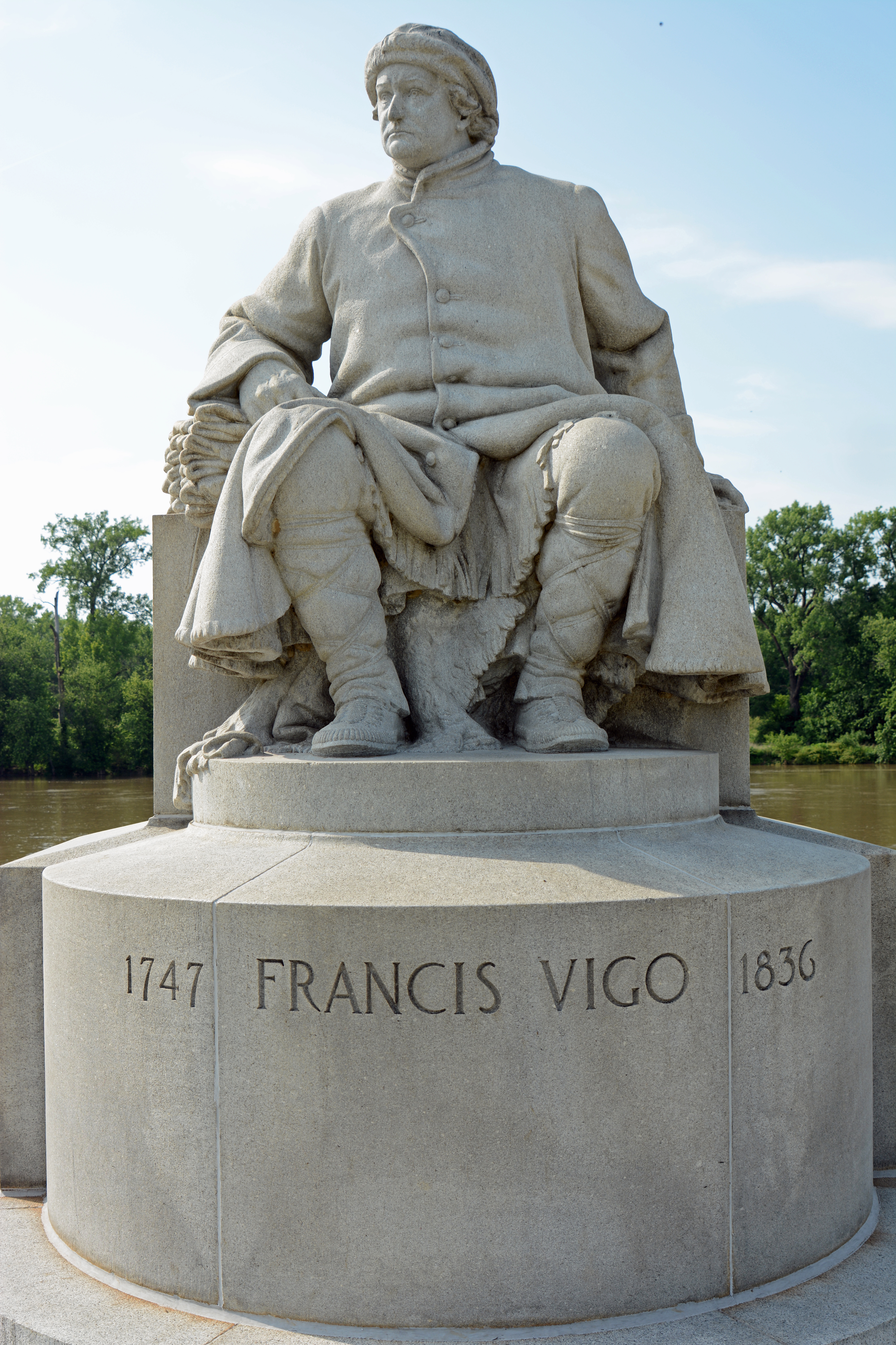 Francis Vigo statue at the George Rogers Clark National Historical Park in Indiana, US